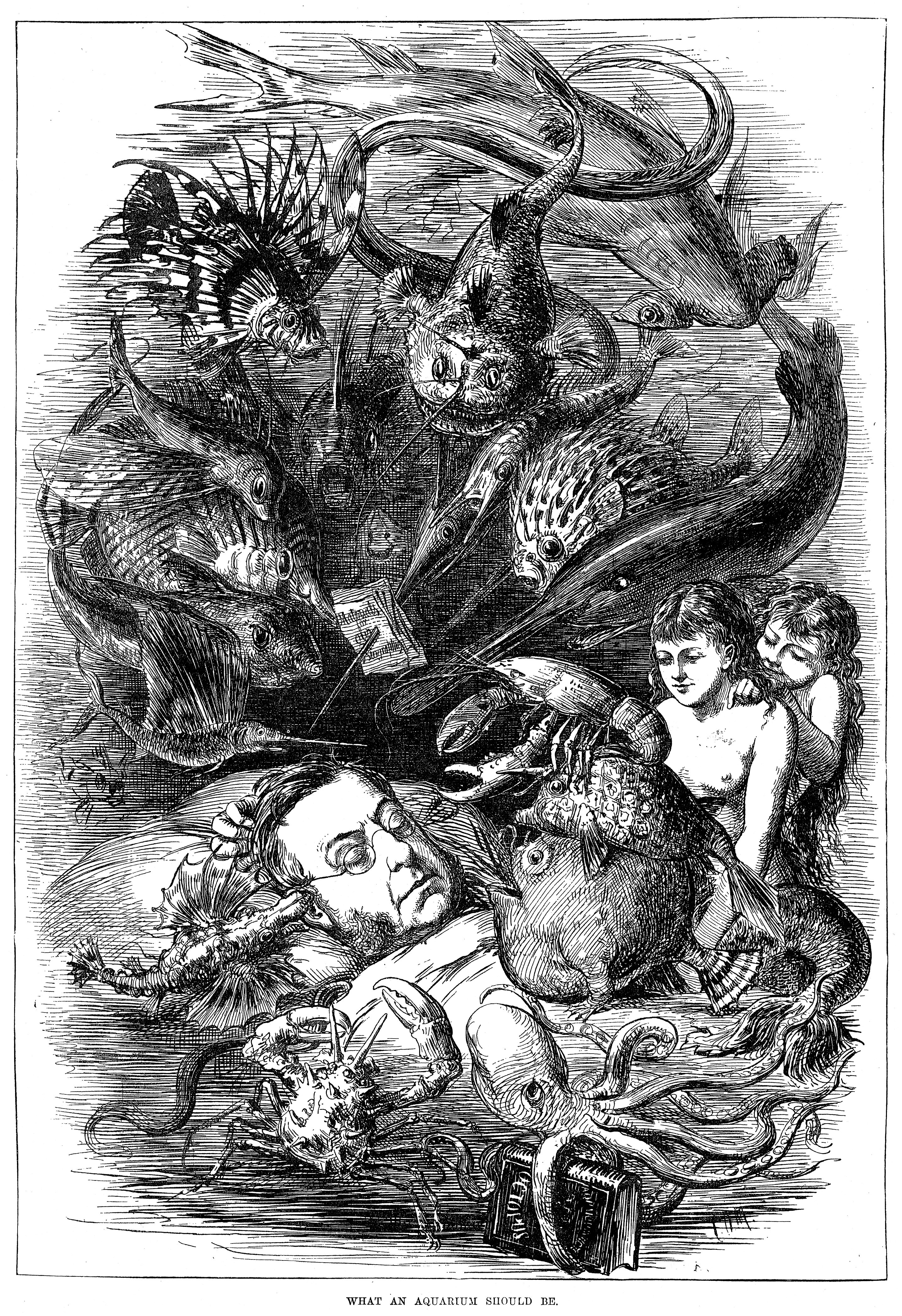 "What an Aquarium Should Be", engraving from the Illustrated Sporting and Dramatic News. (Appears to show the English biologist Thomas Huxley dreaming about sea creatures, including two mermaids.)